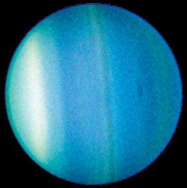 Uranus as seen by Hubble.